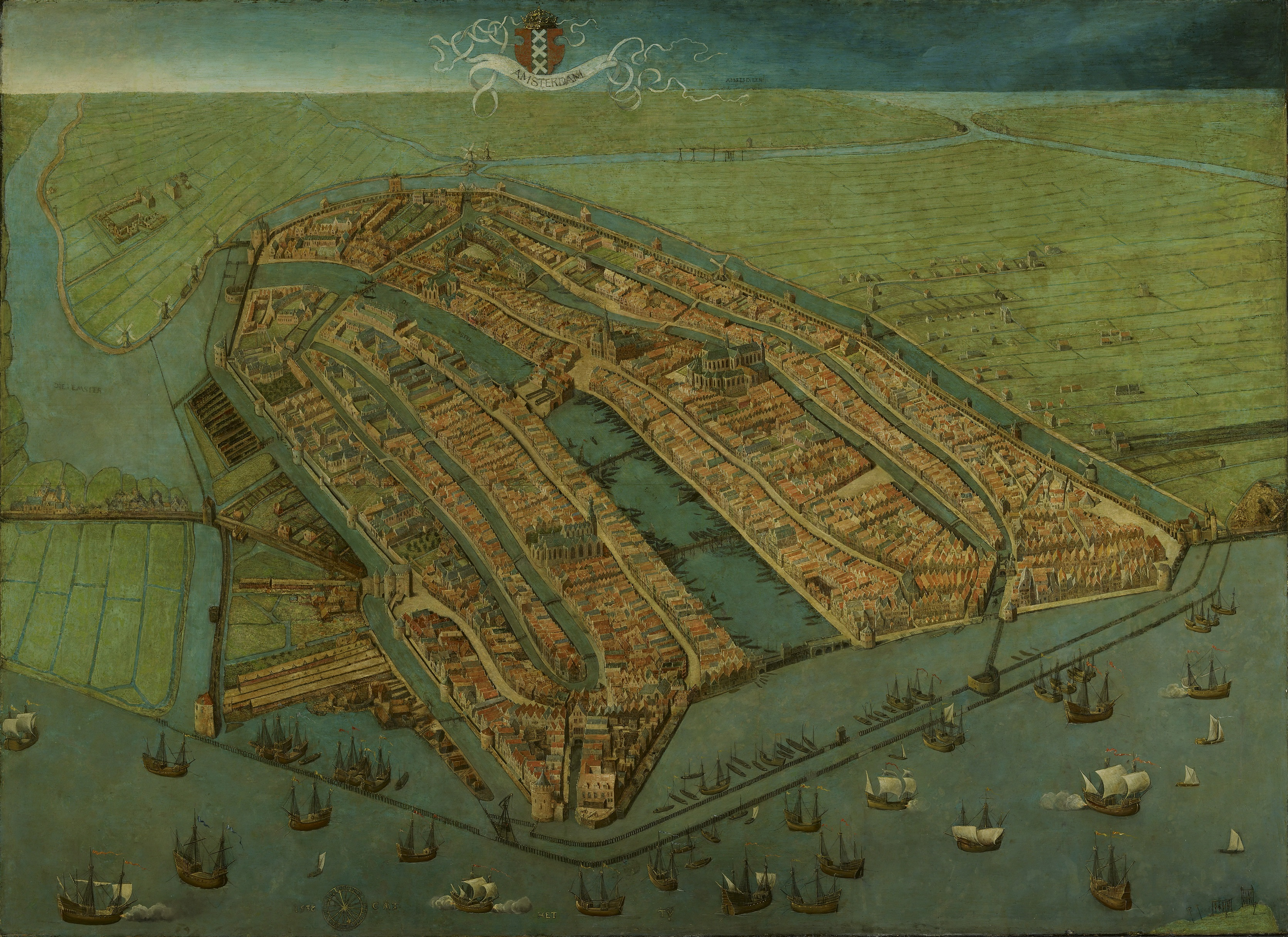 Oldest surviving map of Amsterdam, showing the city's finished medieval walls, towers and gates. Like in most old maps of Amsterdam the city is shown from the IJ, so that the view is directed to the south rather than the north.